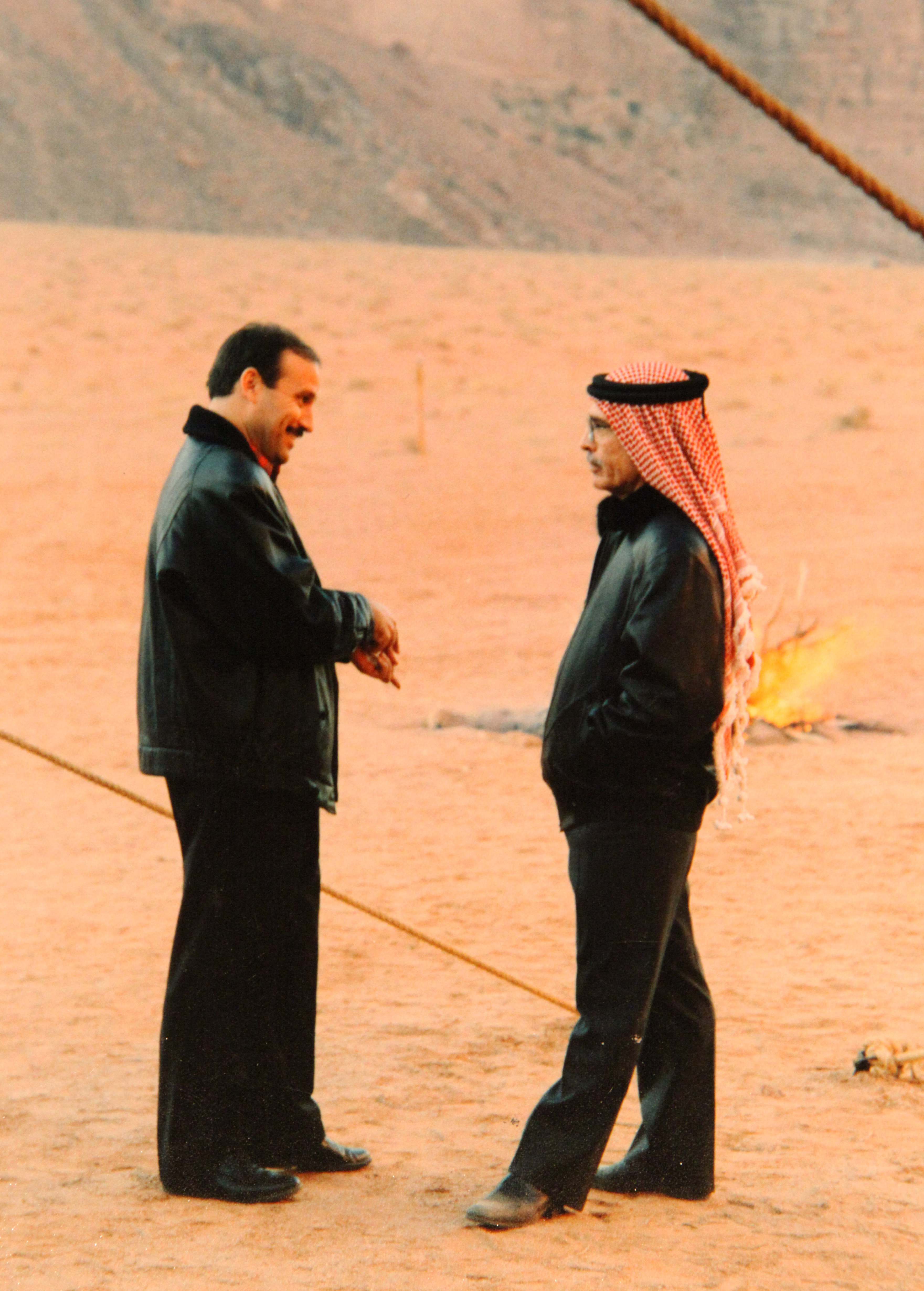 Wadi Rum, Jordan